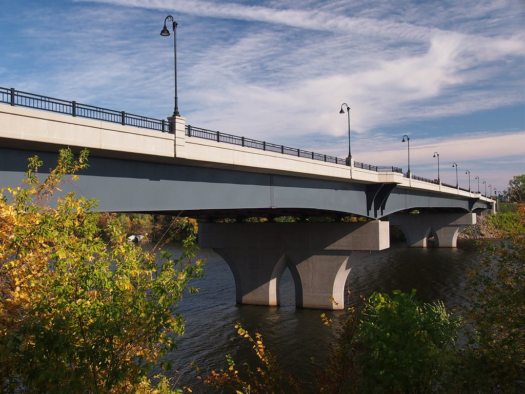 Granite City Crossing (bridge carrying Minnesota State Highway 23 over the Mississippi River). Viewed from the southwest.